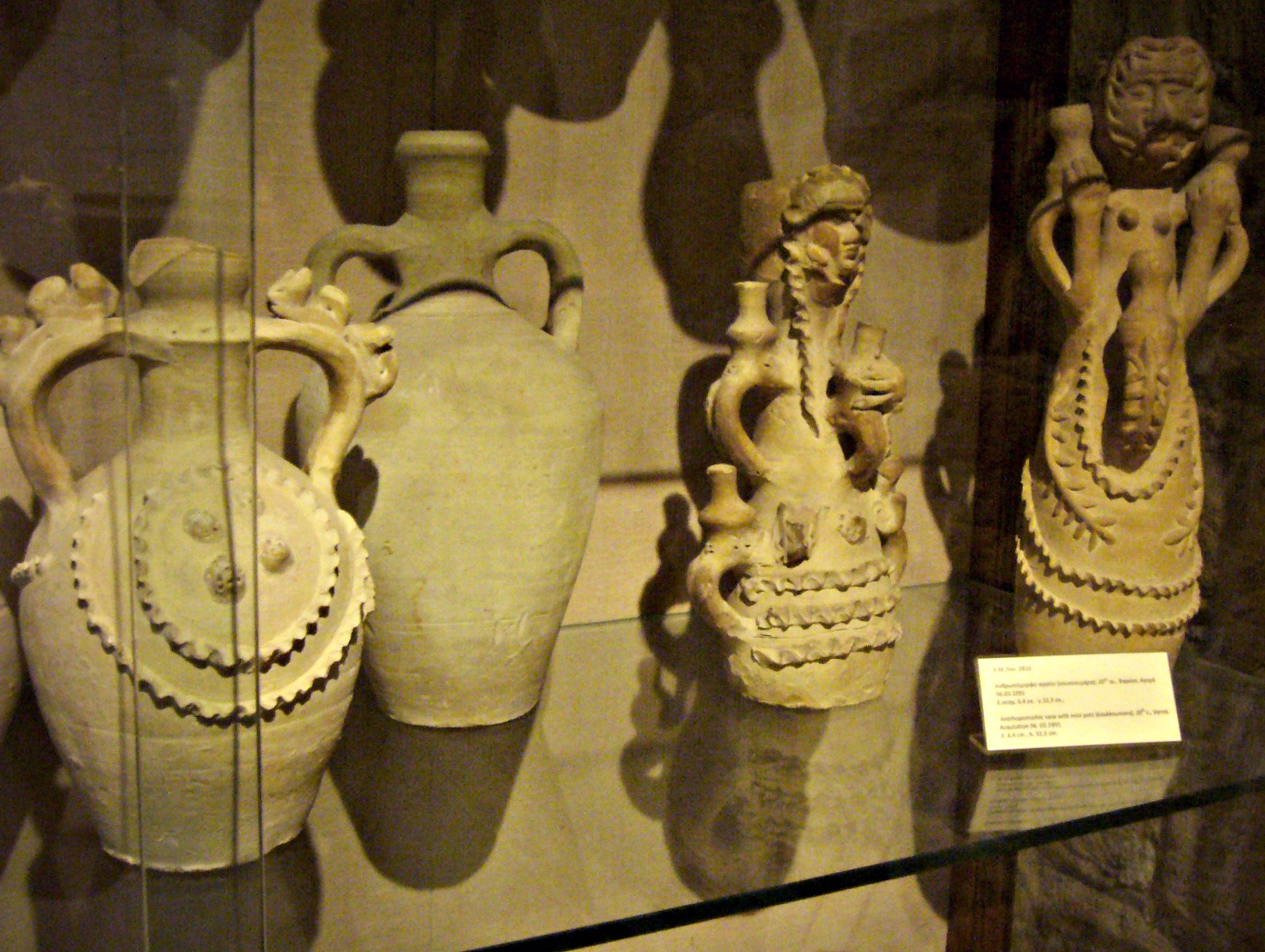 Pottery - Museum of Folk Art in Nicosia